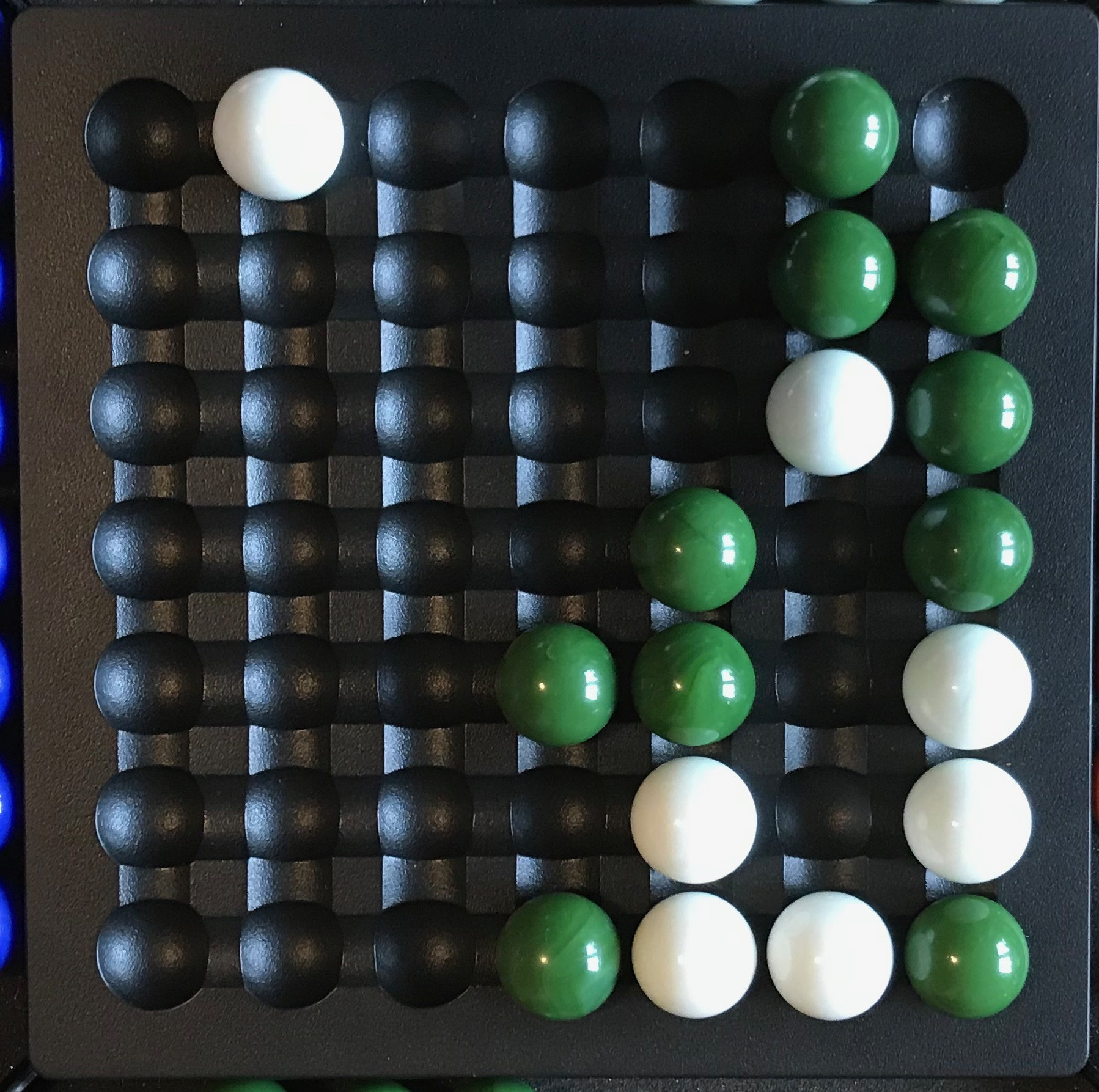 board game Shiftago